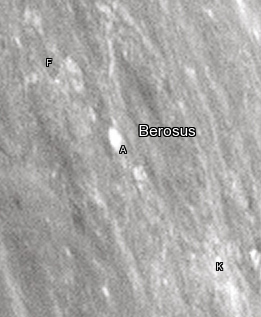 Berosus lunar crater as seen from Earth with satellite craters labeled